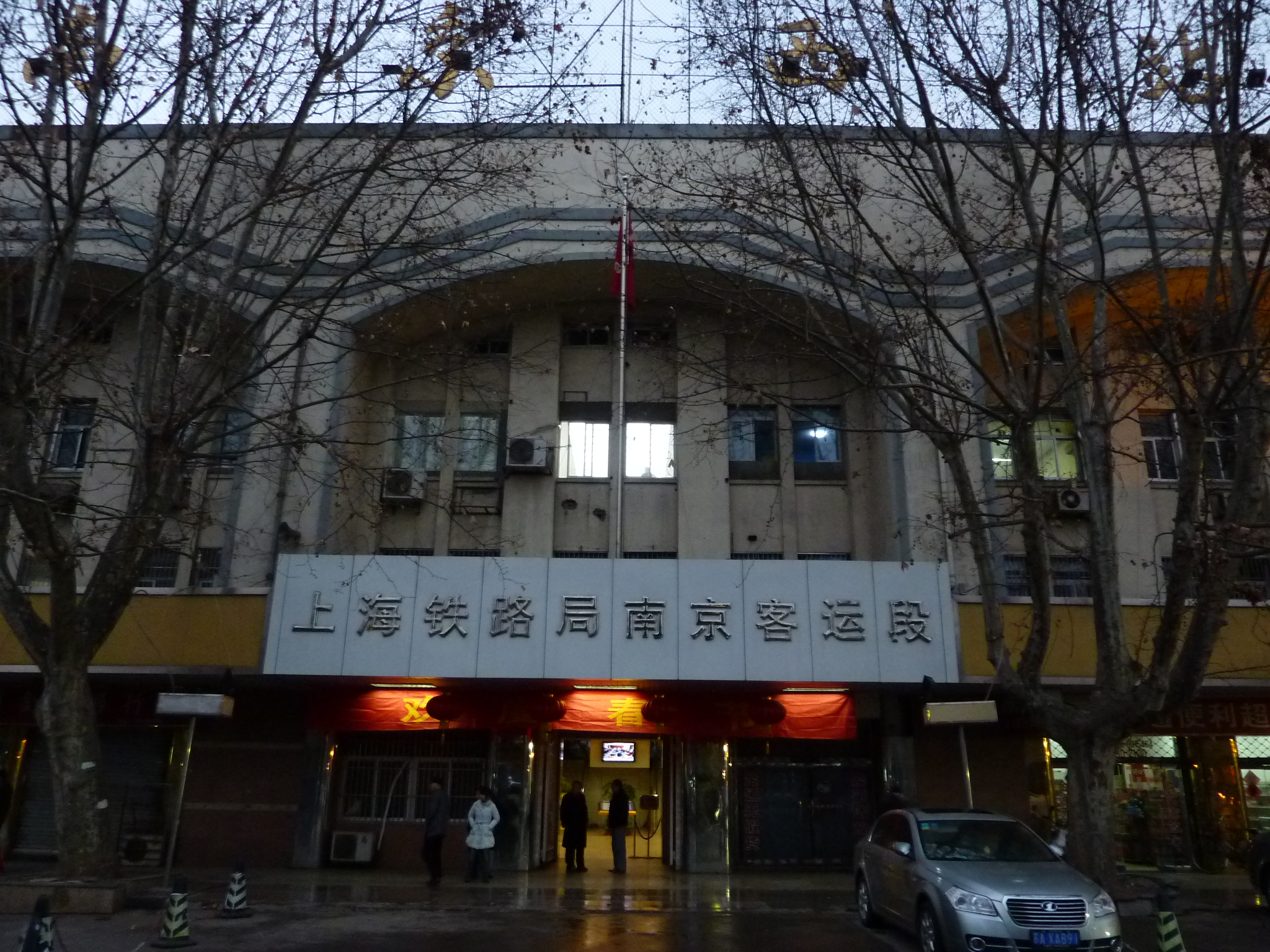 Nanjing West Railway Station does not see many passengers - or many trains - anymore